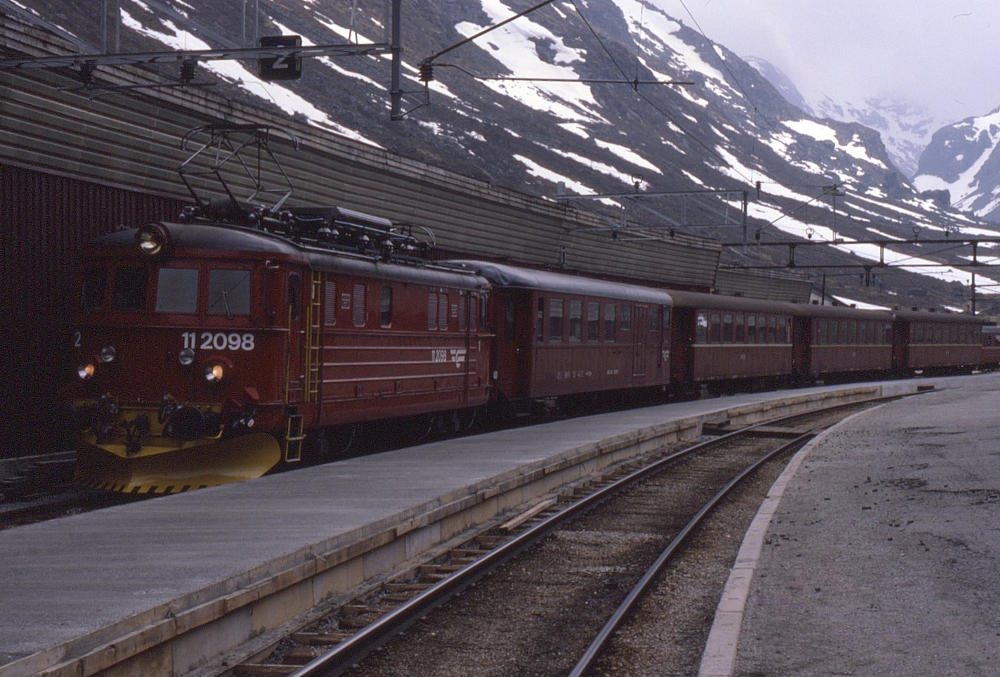 Class El11 electric loco 11.2098 seen at Myrdal on 8 June 1986.